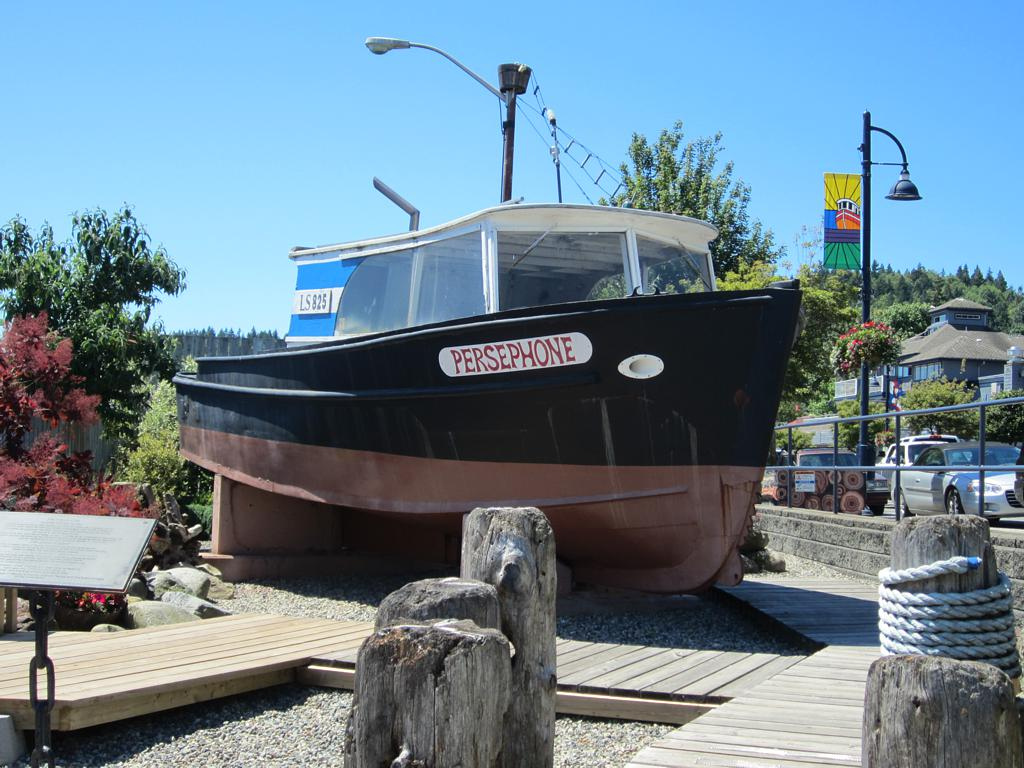 The tug boat Persephone from the CBC TV series Beachcombers rests in a small park in Gibsons, BC, just a block from Molly's Reach.